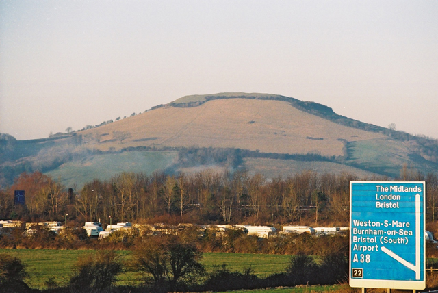 Brent Knoll with M5 Signage.